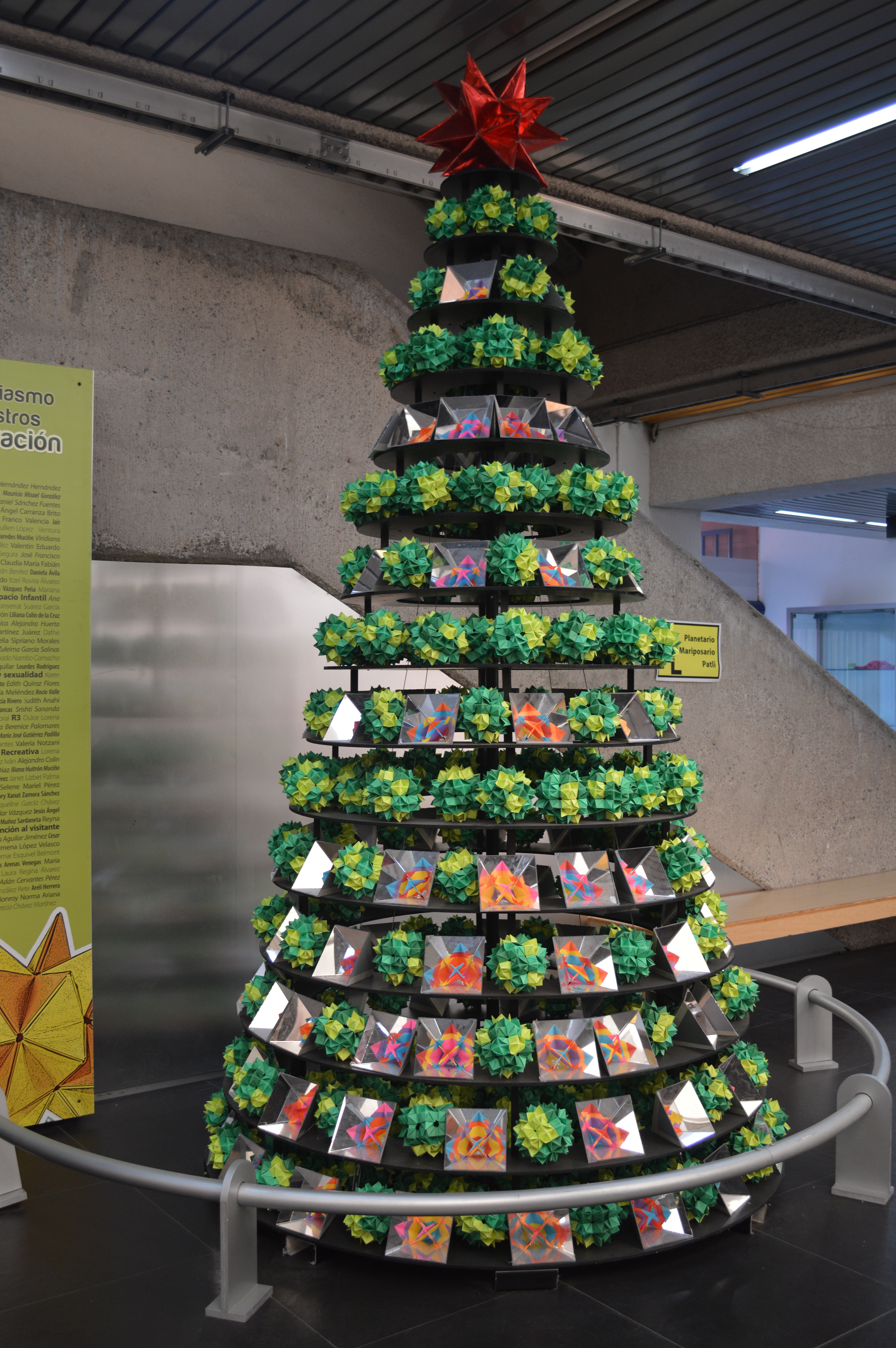 Christmas tree with paper polyhedrons at Universum at Ciudad Universitario in Mexico City